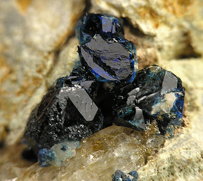 Scorzalite Locality: Estaño Orcko mine (Estaño Orkho mine), Machacamarca District (Colavi District), Cornelio Saavedra Province, Potosí Department, Bolivia (Locality at ) Size: 6.8 x 5.7 x 5.1 cm. Recently some very impressive and attractive specimens of Scorzalite were found at the Estaño Orcko mine in Bolivia. For some time these specimens were thought to be Lazulite, but Brian Kosnar was the one who first reported (through analysis) that they are indeed Scorzalite (the iron analogue of Lazulite). For the size, luster and overall quality of the crystals, they are certainly some of the best Scorazlites to reach the market in a very long time. This particular specimen hosts a few sharp, very lustrous, deep inky-blue color, monoclinic crystals of Scorzalite measuring up to 3 mm on matrix.